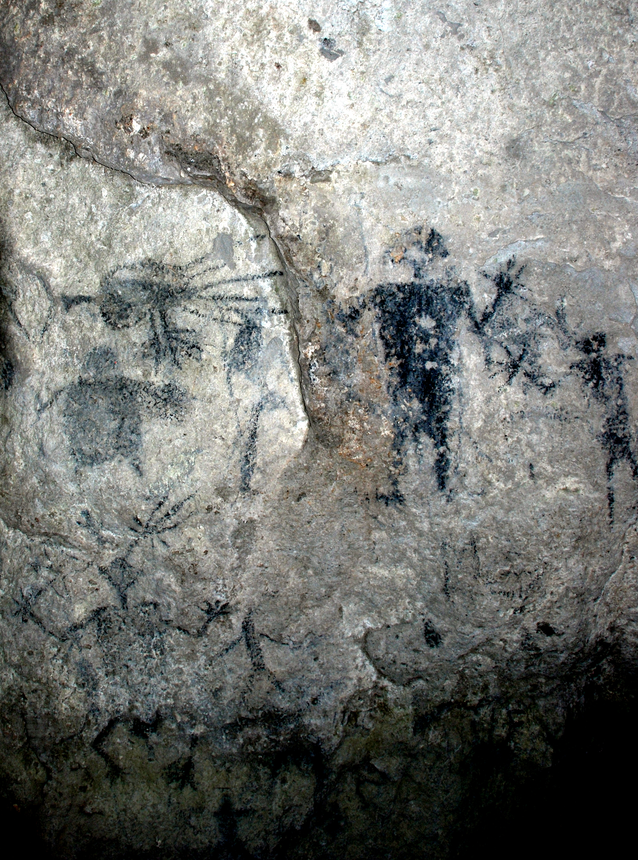 Not much is known about these, but they have been dated at about 900 AD.